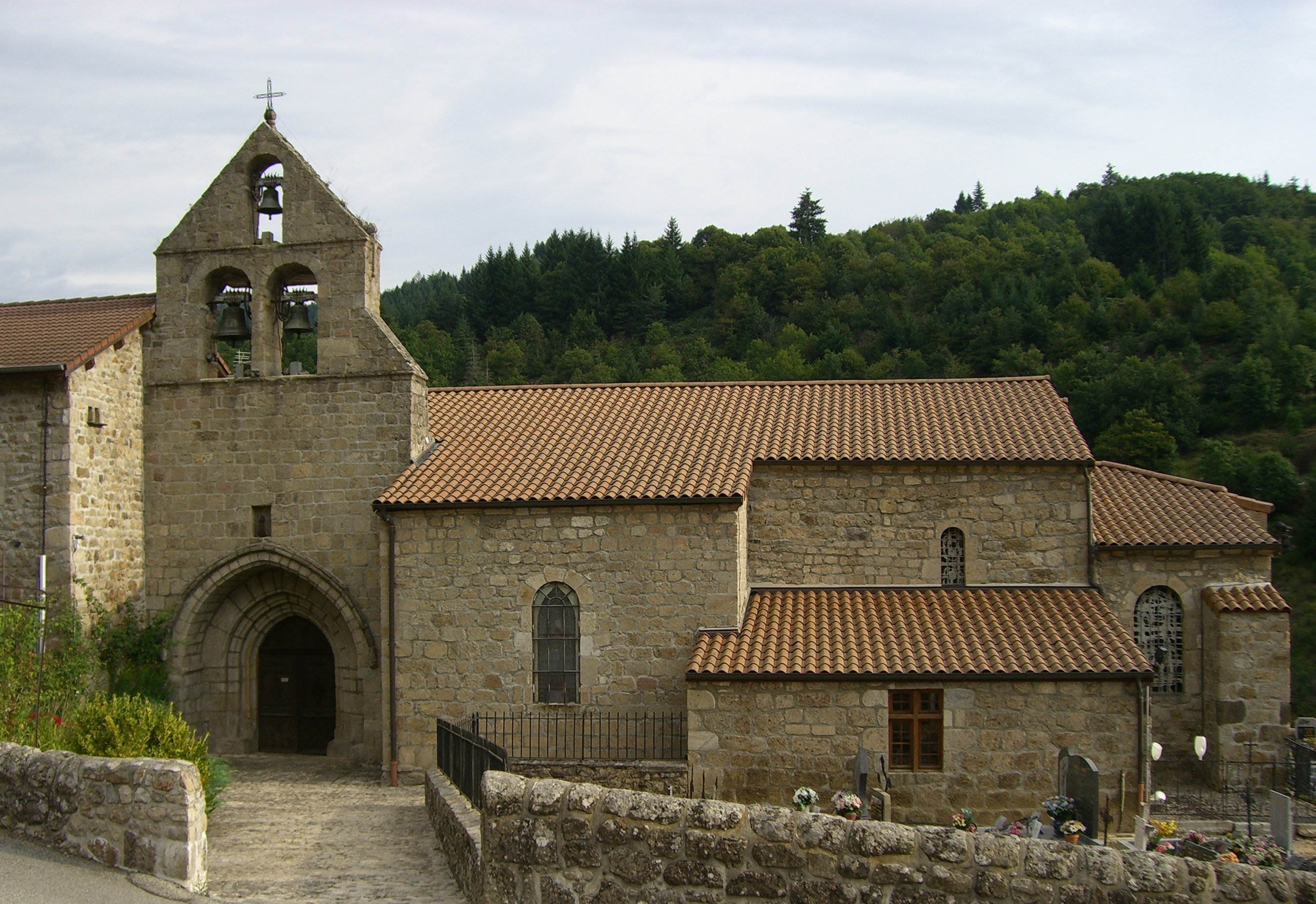 Church of Mariac, Ardèche, FRANCE